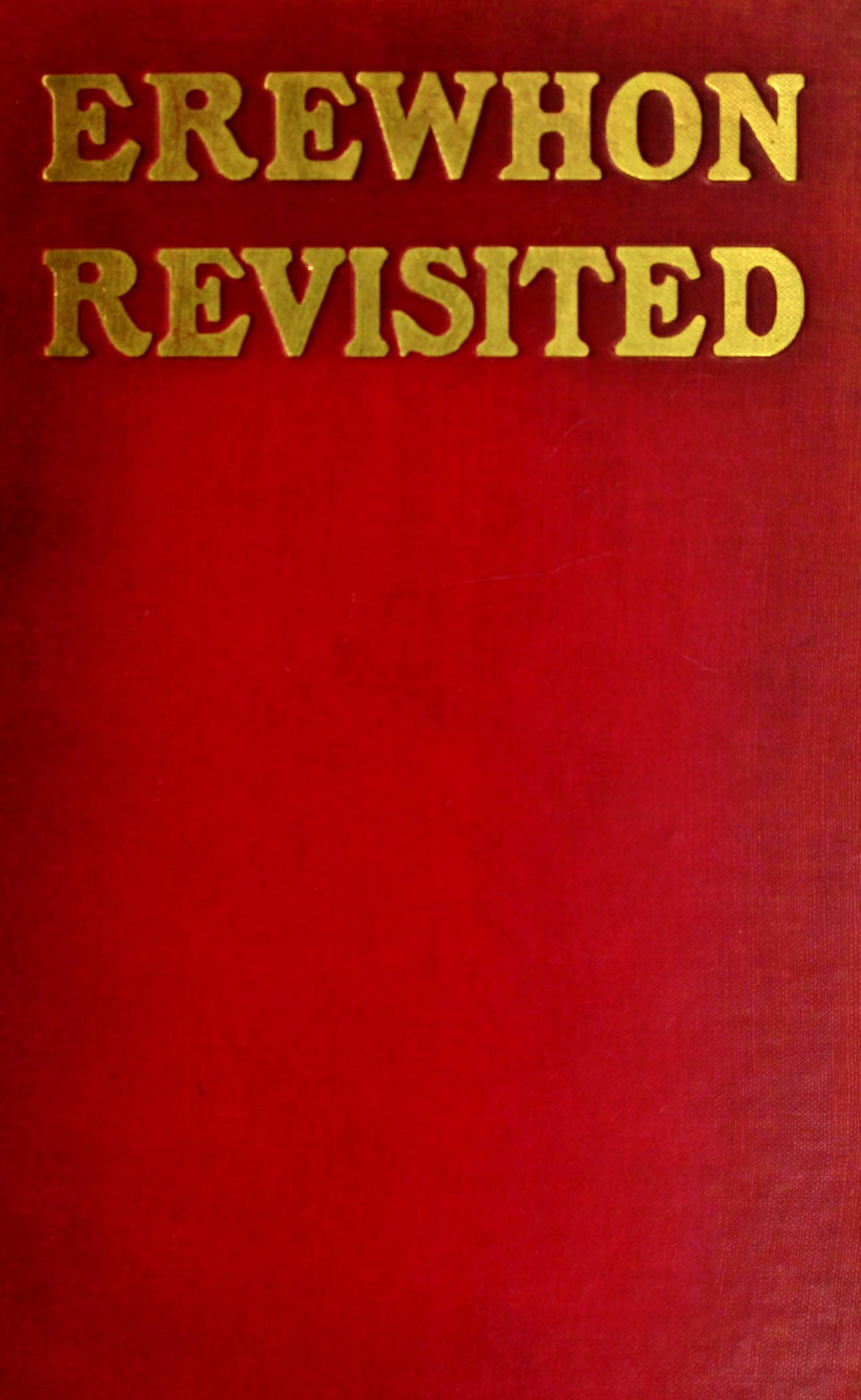 1st edition cover